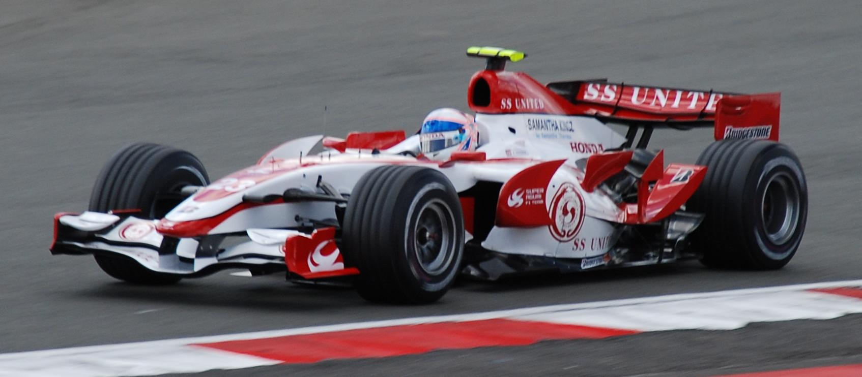 Anthony Davidson driving for Super Aguri F1 at the 2007 British Grand Prix.